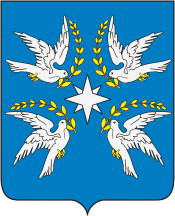 Coat of arms of Druzhni (Belorechensk, Krasnodar, Russia)